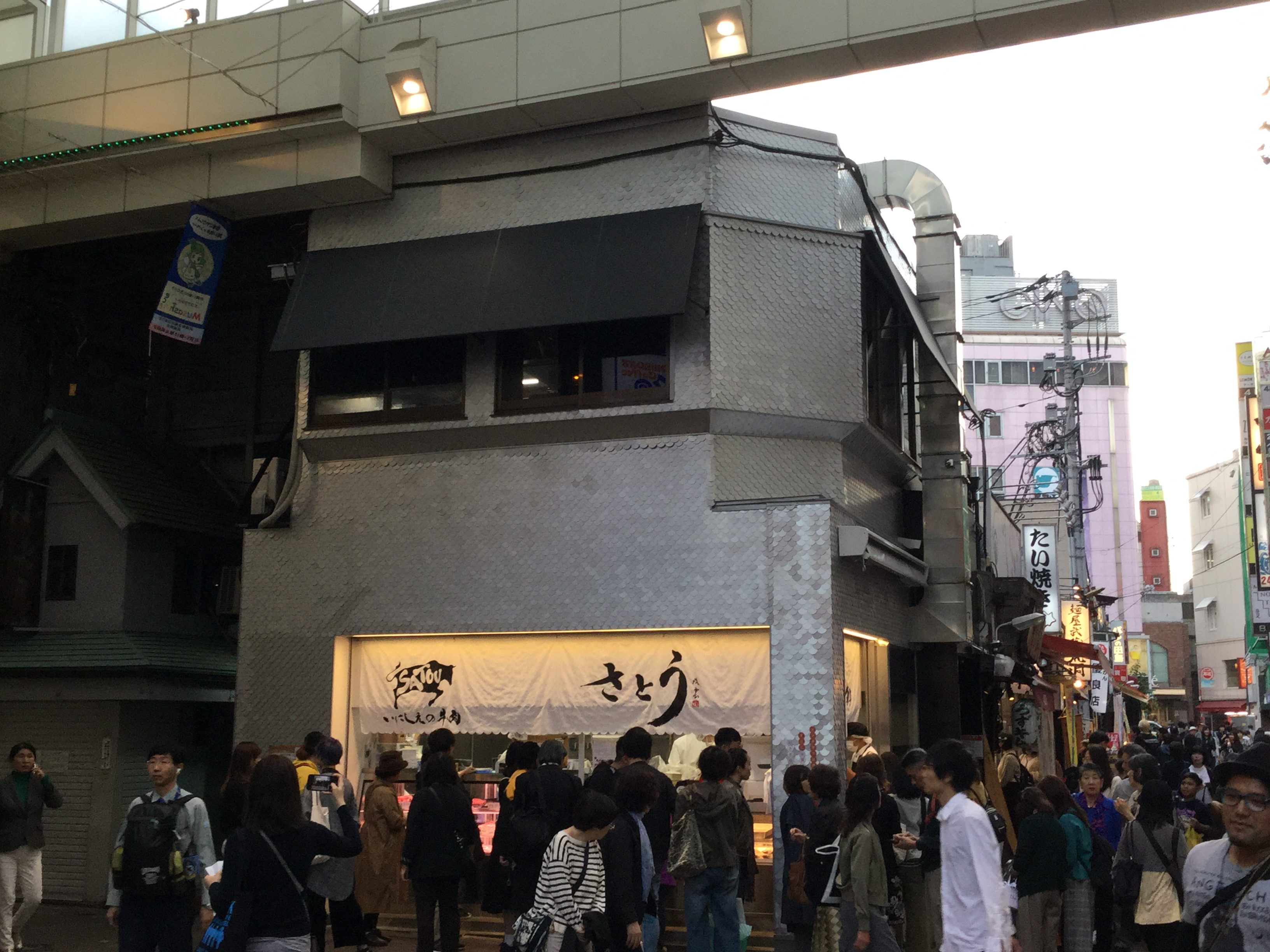 Meat shop "Sato" from Dia-gai Kichijoji.